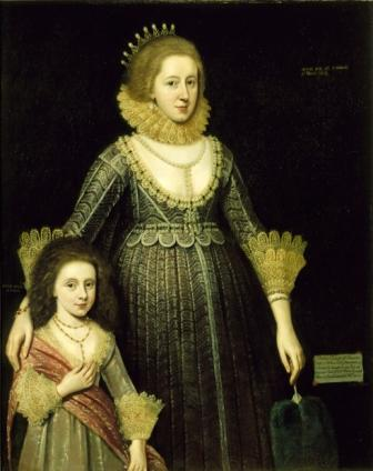 Lady Cavendish is shown with her daughter Anne, but the little girl is not the only one of Christian's children in the painting. At the time of the portrait, Lady Cavendish was pregnant with her third child, a son to be named Charles, after his godfather, Charles I of England.